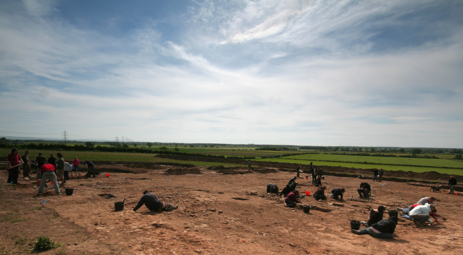 Visiting the archaeological dig at the location for the University of York expansion at Heslington East